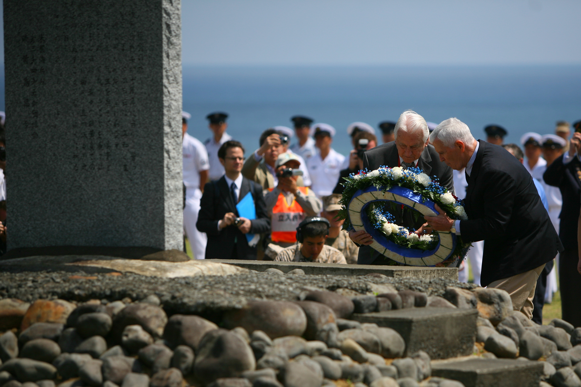 Retired Marine Lt. Gens. Lawrence F. Snowden and Henry C. Stackpole III lay a wreath on the Reunion of Honor memorial here during the 67th Iwo Jima Reunion of Honor ceremony March 14.